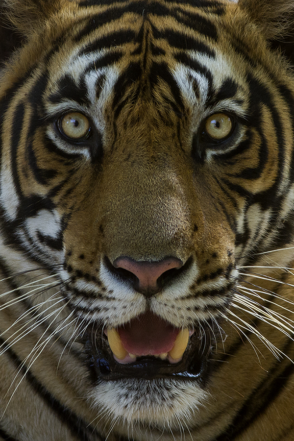 The image of tiger's facial marking (Sultan or T72) had been photographed from Ranthambhore Tiger Reserve, Rajasthan, India on 12.10.2014.